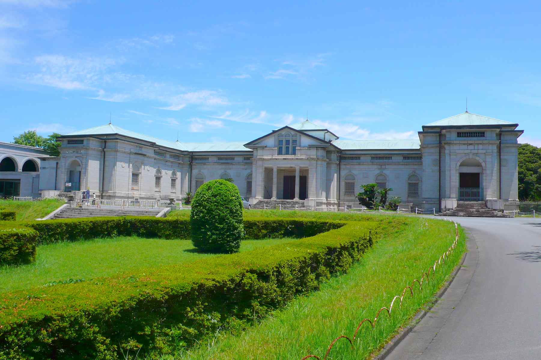 The Jingu History Museum (Jingu Chokokan) at Ise city Mie Prf. Japan.